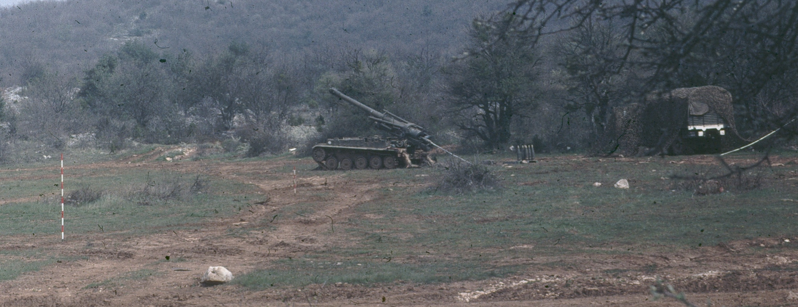 This picture has been taken in 1980 in Canjuers military camp. It shows a battery position with an AMF3 howitzer and its GBC8KT supply vehicle.